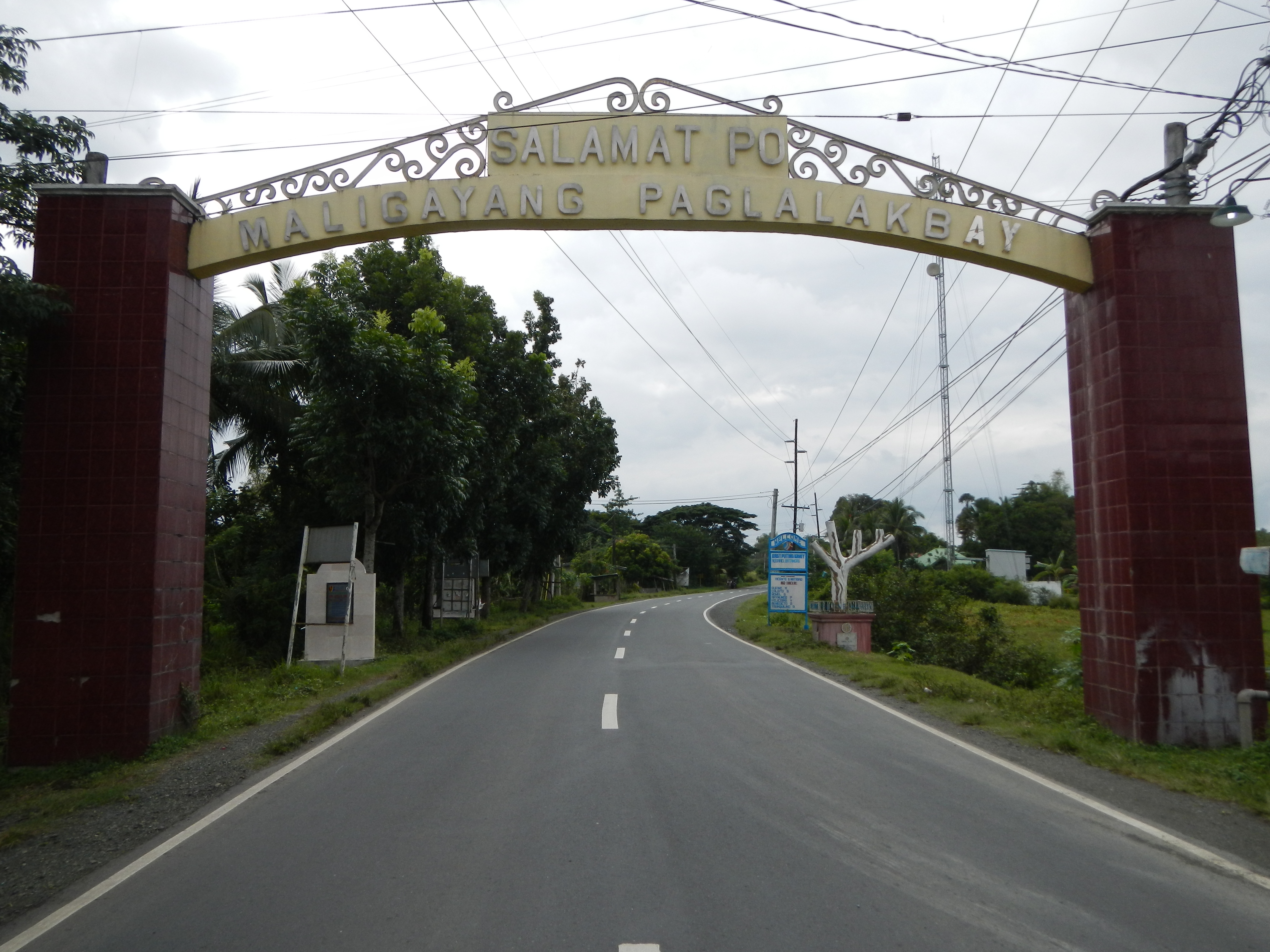 Upload Wizard photos of - the scenery, panoramic and landscapes along the Maharlika or Pan-Philippine Highway - Purok 5 Barangay Muzon, San Juan Batangas and Barangay Puting Kahoy, Rosario, Batangas[1] where the Welcome Arch and Welcome Signs of these 2 Barangays are located, towards Town Proper, downtown, Centro, BDO, Police Station and Public Market of - San Juan, Batangas[2] (a first class municipality on the Philippines in the province of Batangas; the 2010 census, it has a population of 94,291 people politically subdivided into 42 barangays)Website attraction is Acautico Resort in Laiya [3])).[4] [5] [6]